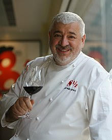 Umberto Bombana at his restaurant 8 1/2 Otto e Mezzo Bombana. Photographed by Calvin Sit.